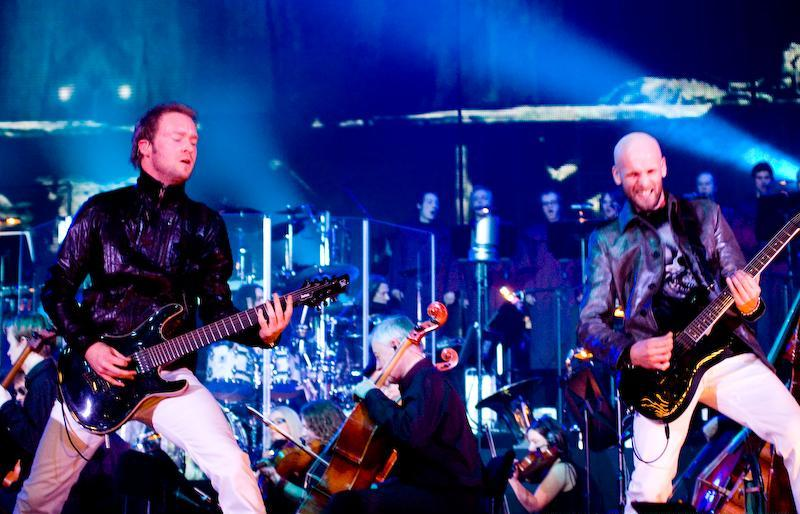 Ruud and Robert from Within Temptation during Black Symphony show at Rotterdam